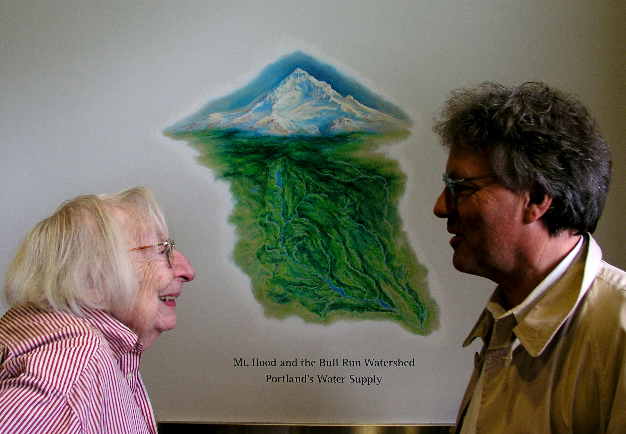 Jane Jacobs with environmentalist Spencer Beebe, 2004. In the background is a painting by Barbara Stafford.